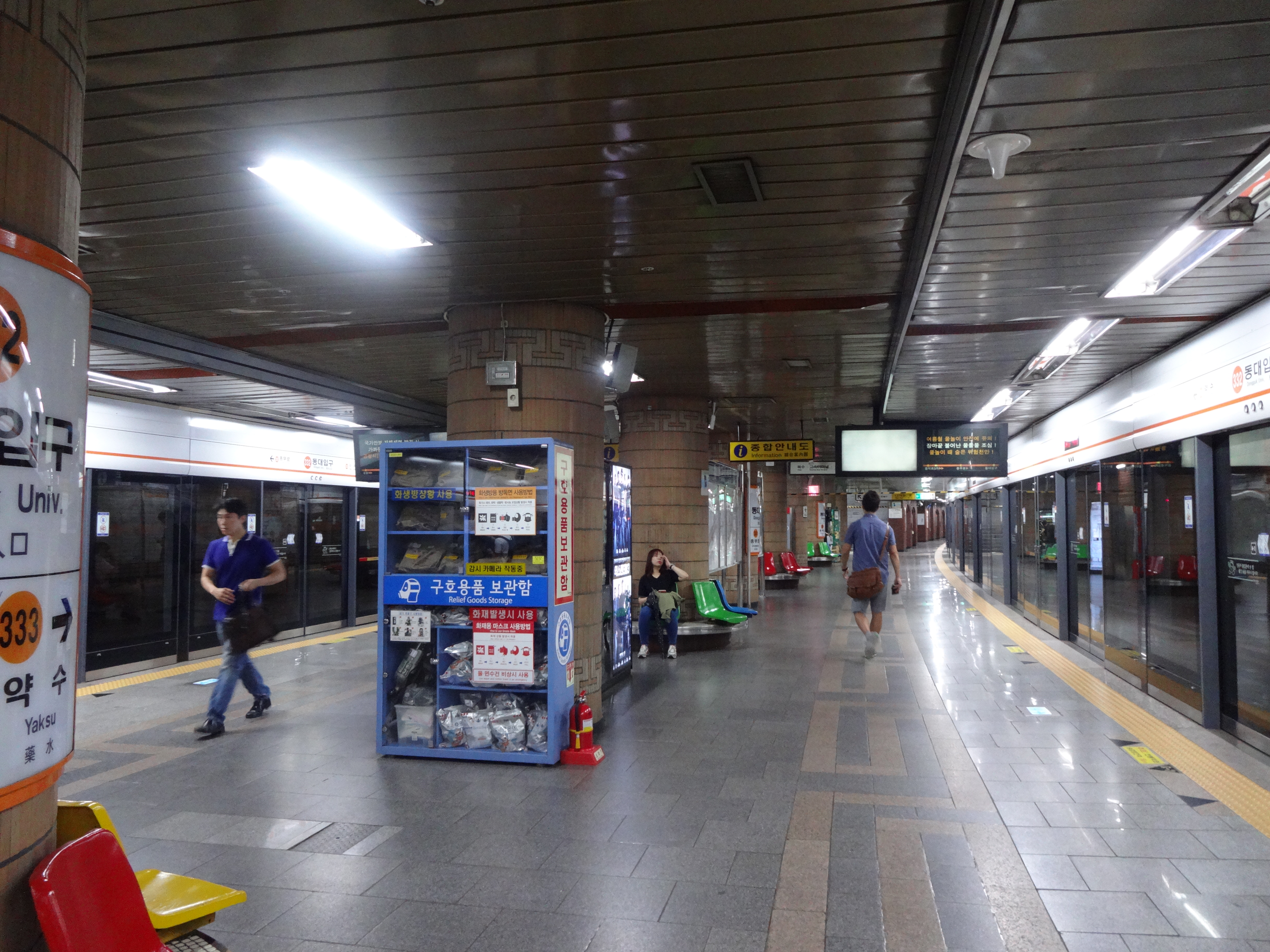 Railway platform of the Dongguk University Station in Seoul, South Korea.